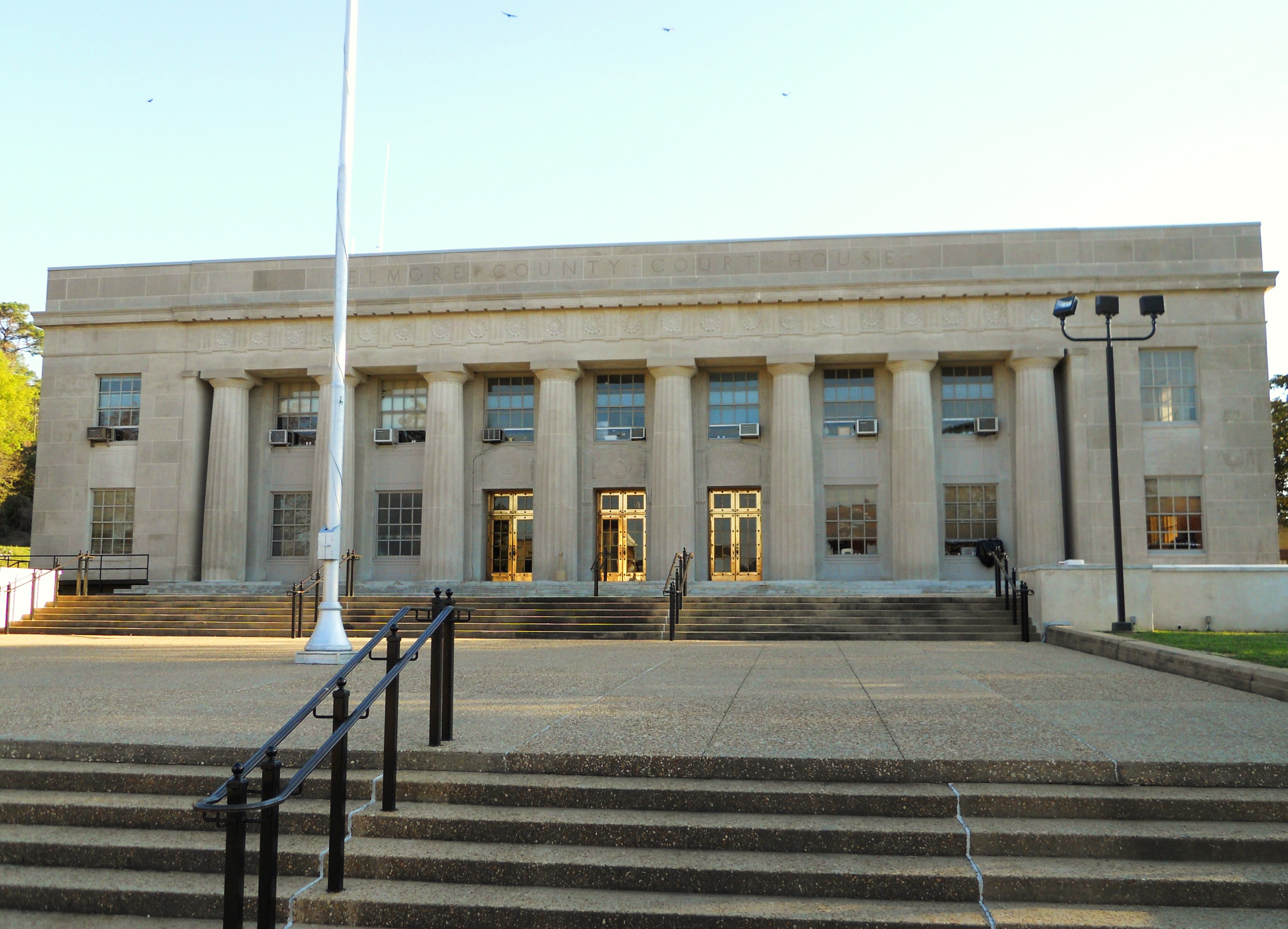 This is a photograph of the county courthouse of Elmore County, Alabama. The building is located in [{Wetumpka]